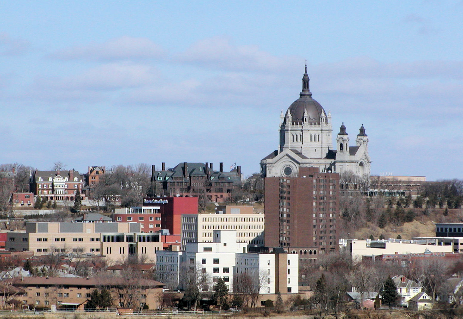 St. Paul Cathedral looms over the Historic Hill District in Saint Paul, Minnesota